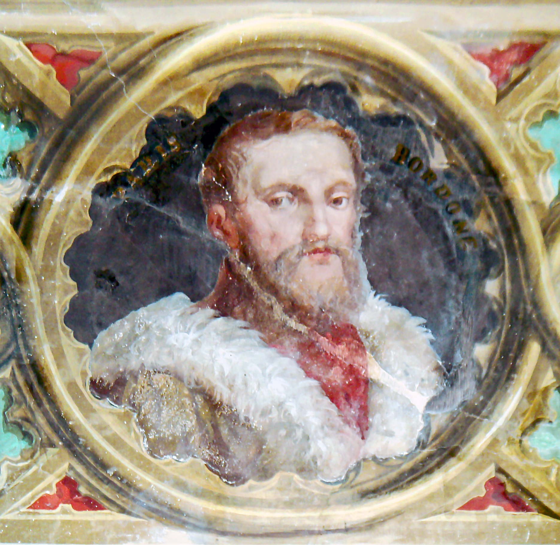 Paris Bordone, Villa Torlonia, Rome, Italy.